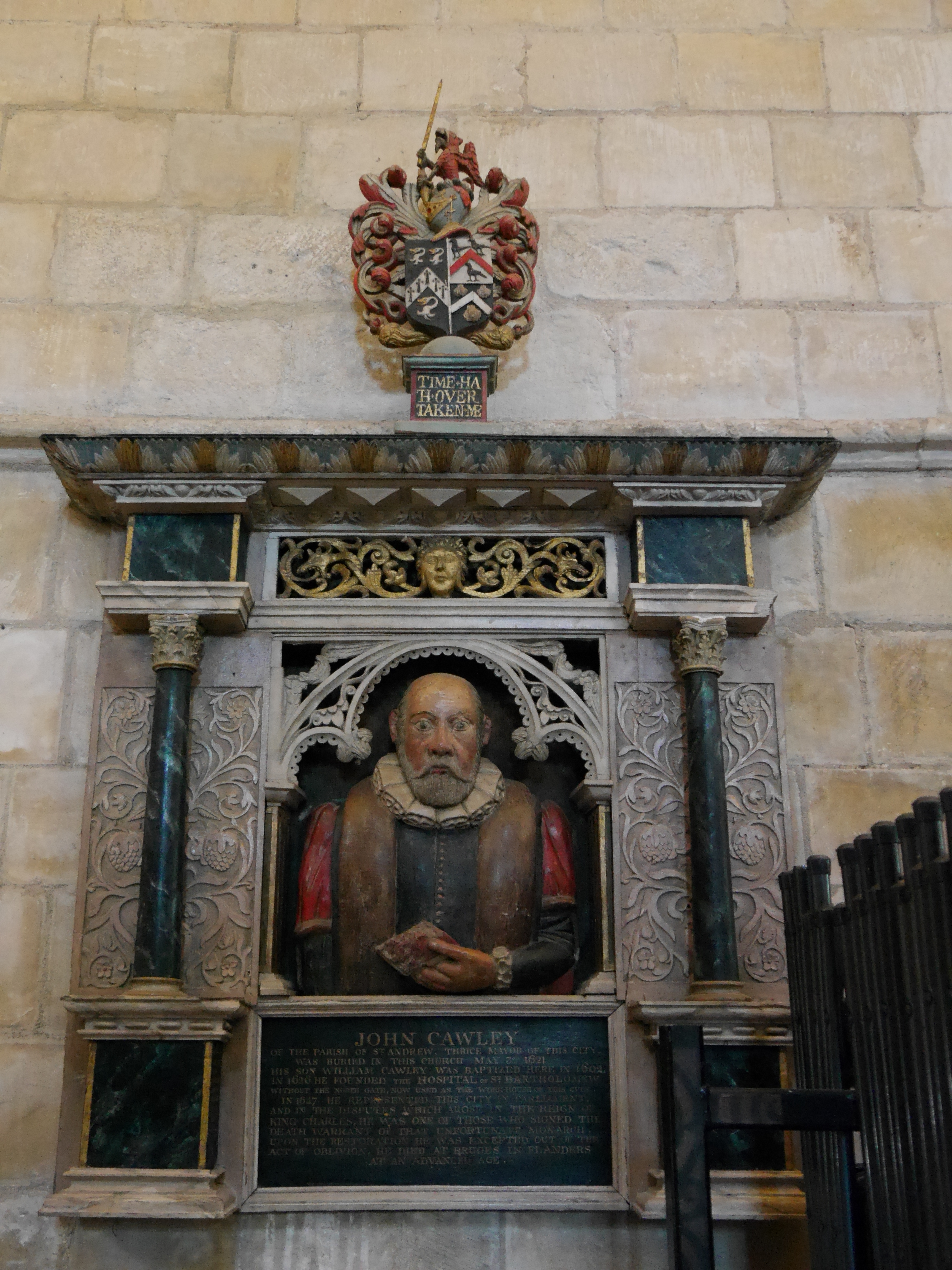 Mural monument in Chichester Cathedral to John Cawley (d.1621), thrice Mayor of Chichester, and to his son William Cawley (1602-1667), the regicide. Cawley arms: Sable, a chevron ermine between three swan's heads and necks erased argent beaked or. This memorial was originally in the Church of St Andrew, Oxmarket, damaged in the 1939-45 war, now the Chichester Centre of Arts. Inscription: John Cawley Of the parish of St Andrews, thrice mayor of this city, was buried in this church May 3rd 1621. His son William Cawley was baptized here in 1602. In 1626 he founded the Hospital of St Bartholomew without the North Gate, now used as the workhouse of the City. In 1647 he represented this city in Parliament and in the Disputes which arose in the reign of King Charles. He was one of those who signed the Death Warrant of that unfortunate monarch. Upon the Restoration he was excepted out of the Act of Oblivion. He died at Bruges in Flanders at an advanced age.